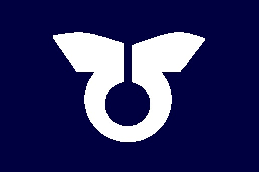 Flag of Hidaka Wakayama